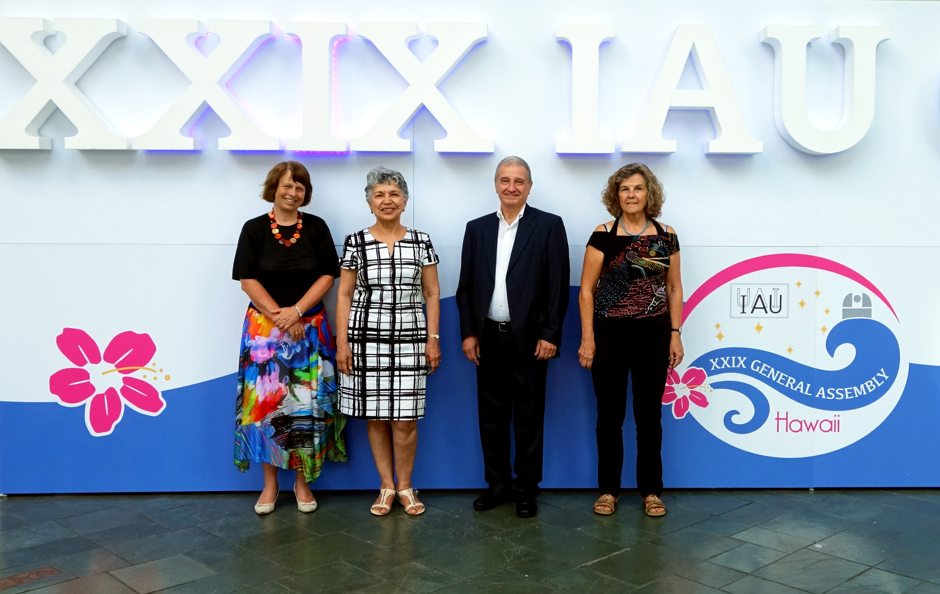 From left to right: Ewine van Dishoeck (the Netherlands, President-elect), Silvia Torres-Peimbert (Mexico, President), Piero Benvenuti (Italy, General Secretary) and Maria Teresa Lago (Portugal, General Secretary-elect).